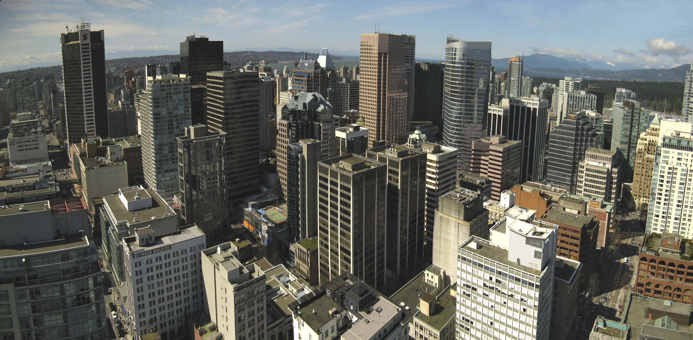 Downtown Vancouver taken from the Vancouver Lookout at Harbour Centre, 31 March 2007, by me.